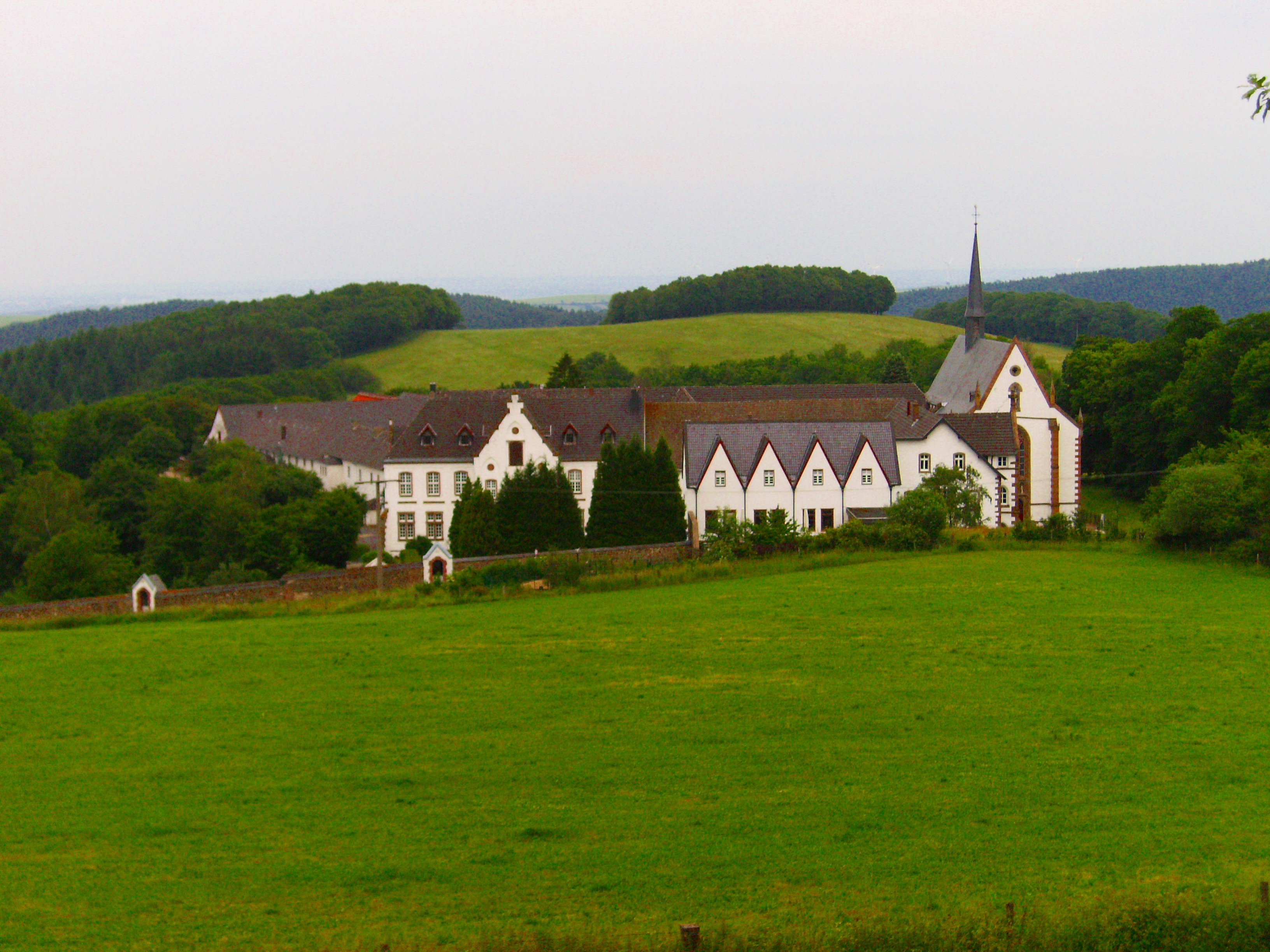 Mariawald Abbey, Heimbach, Germany